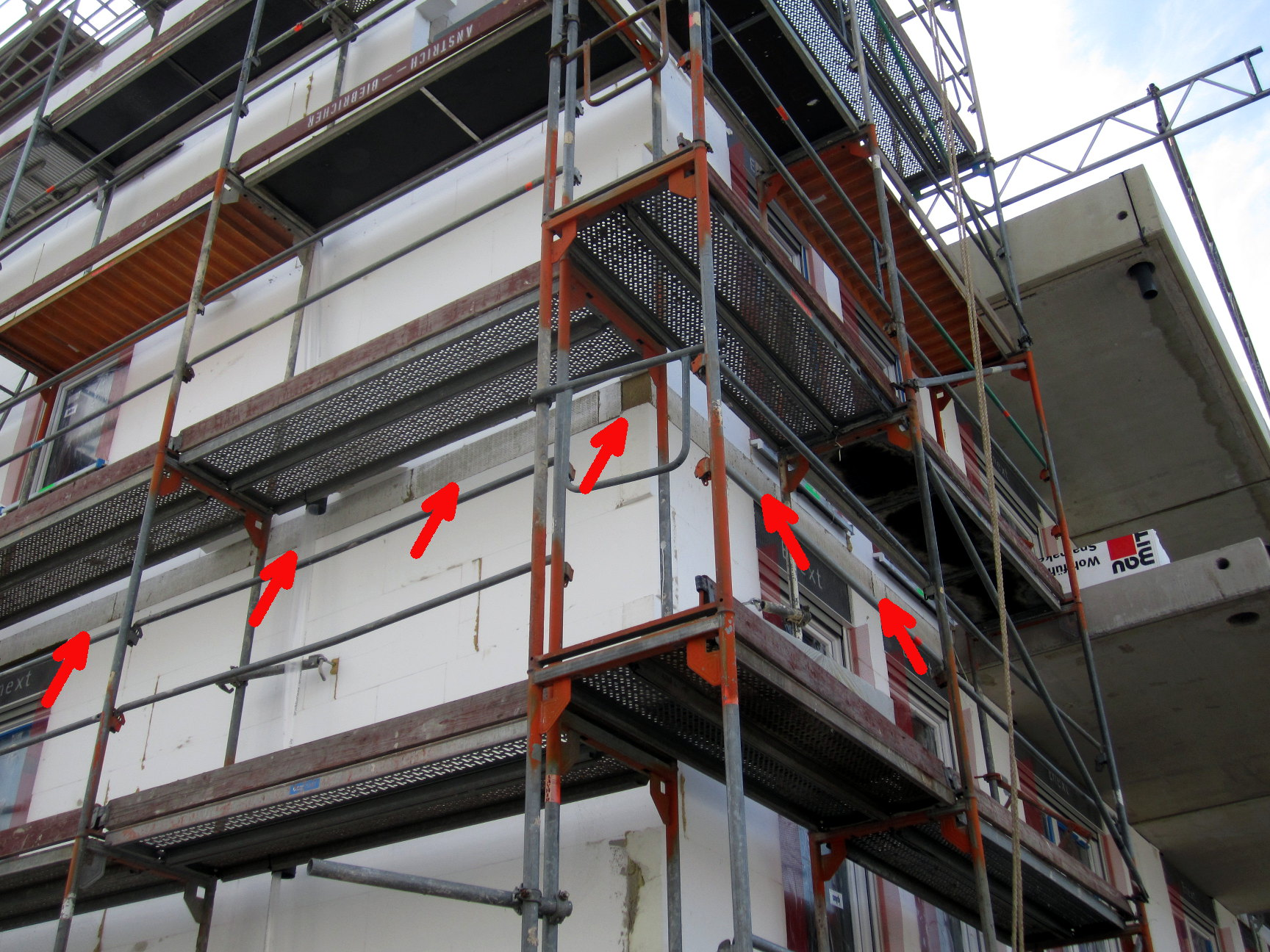 Rock woll fire protection barrier within a polystyrole thermal building insulation